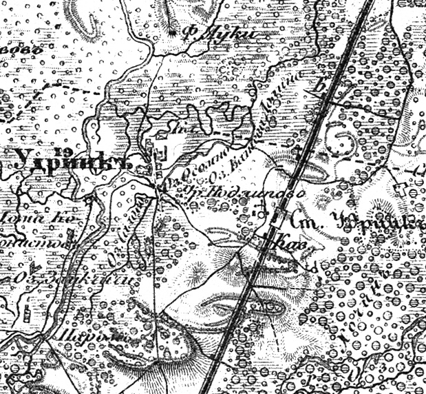 Udrytsk on the map "Военно-топографическая карта Российской Империи" (known as "Schubert's map"), XX 5, 1866-1887 (issued in 1911).